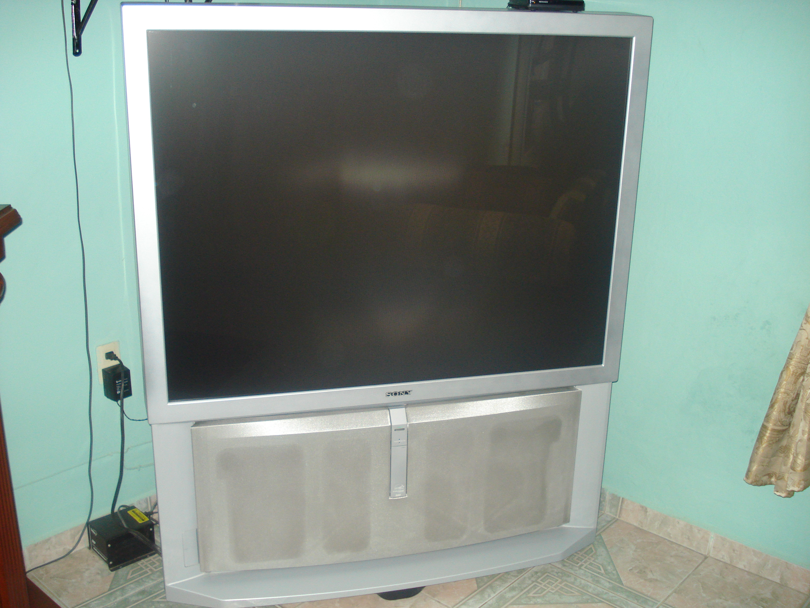 TV Sony`54 inch